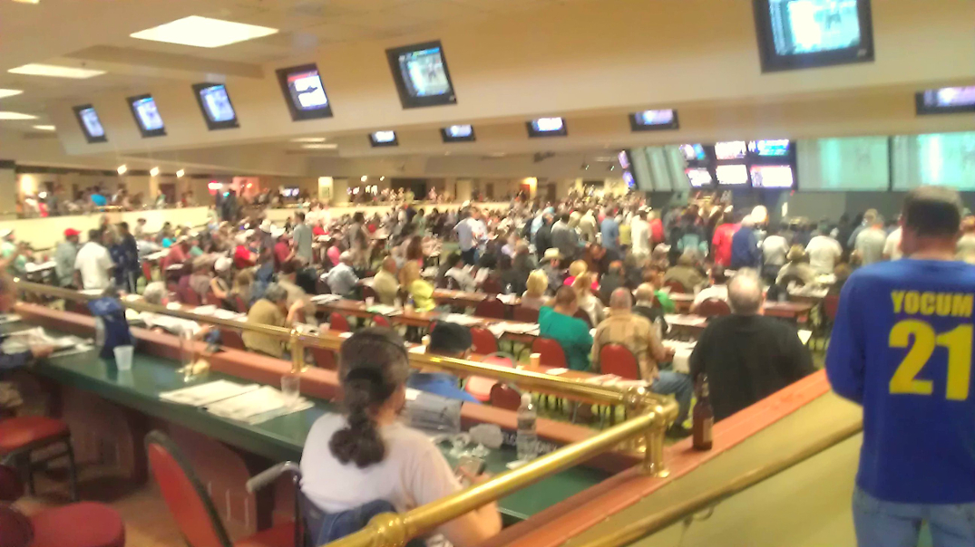 Inside view of satellite wagering facility